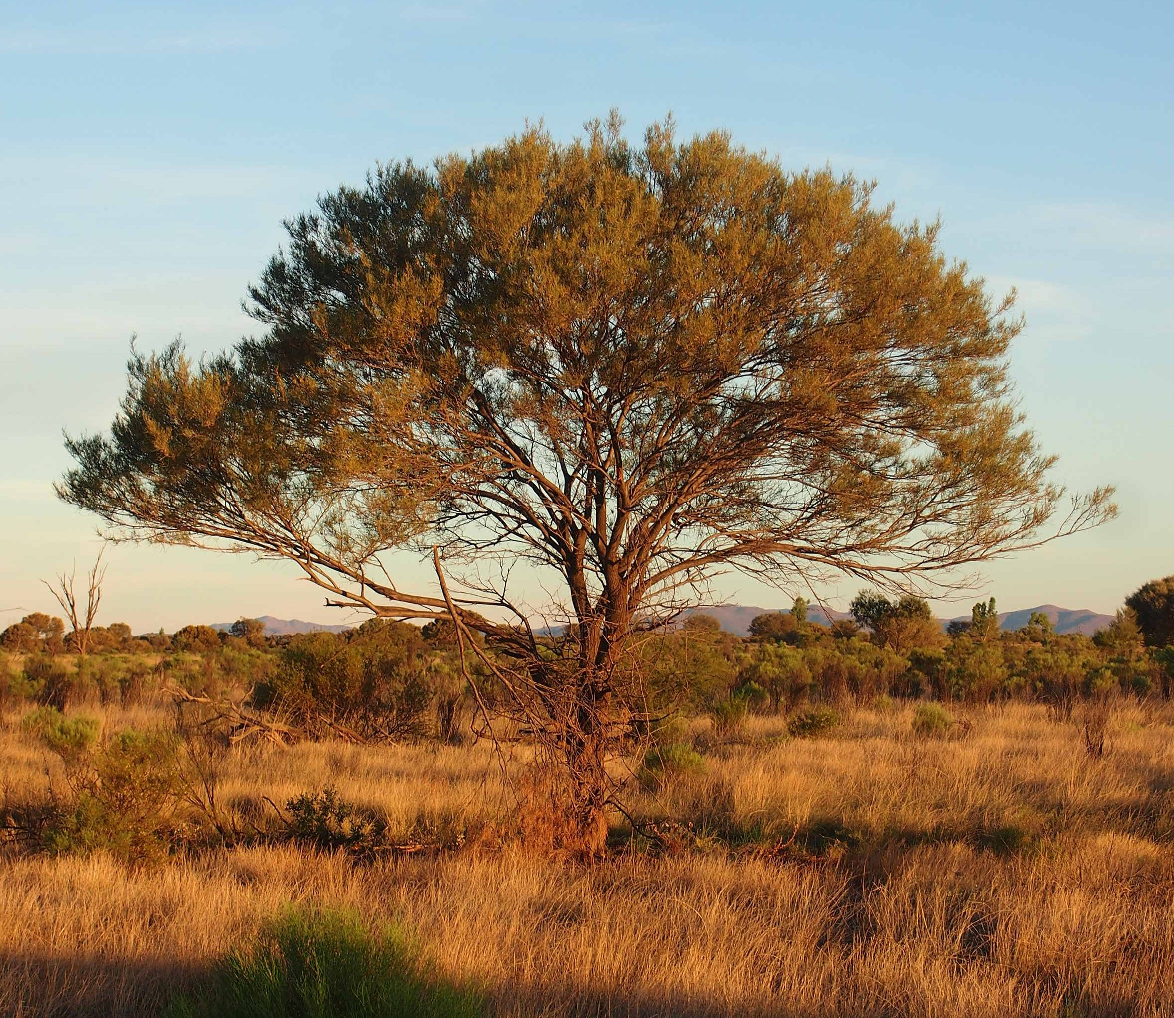 Acacia aneura tree form habit